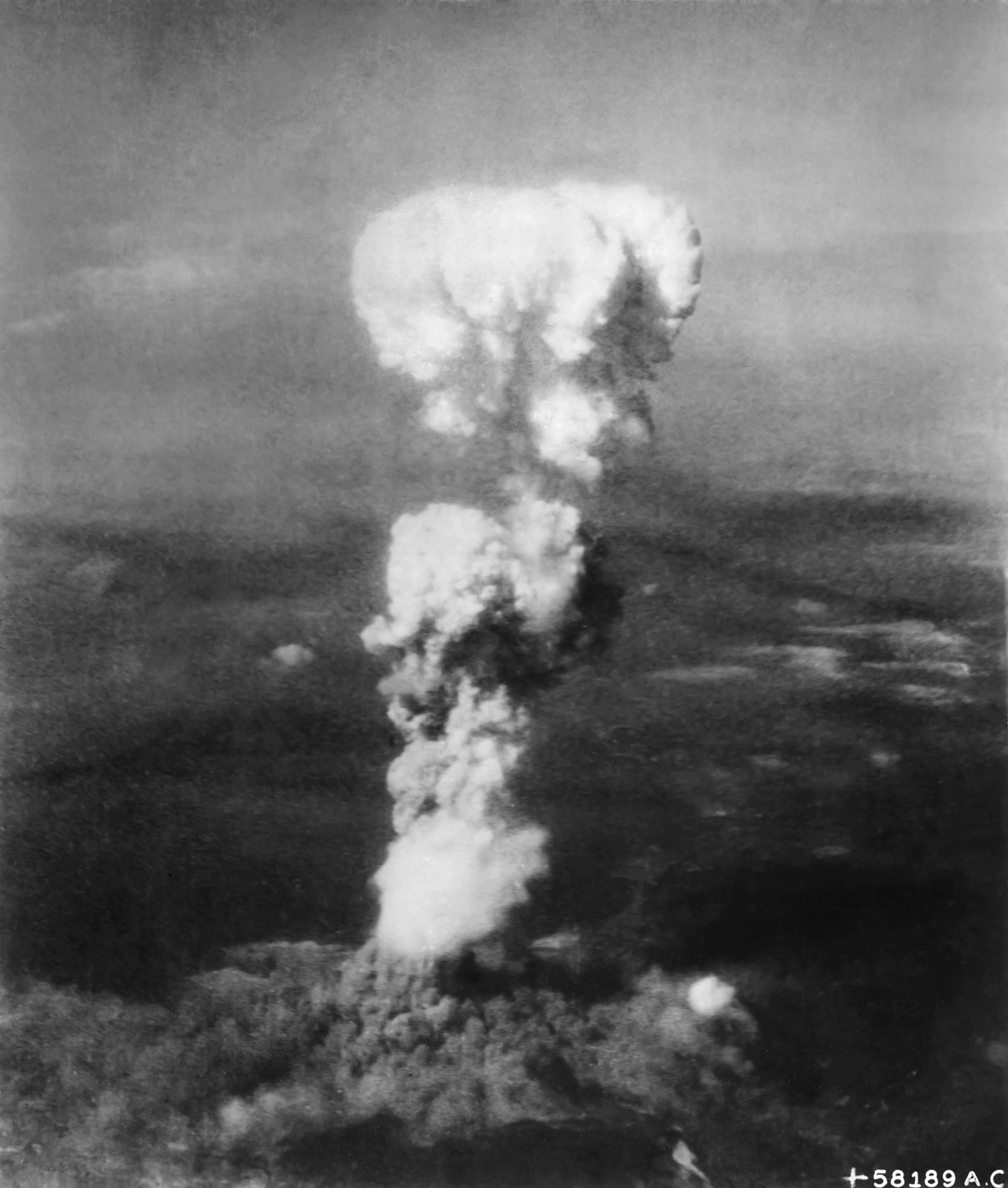 At the time this photo was made, smoke billowed 20,000 feet above Hiroshima while smoke from the burst of the first atomic bomb had spread over 10,000 feet on the target at the base of the rising column. Six planes of the 509th Composite Group, participated in this mission; one to carry the bomb Enola Gay, one to take scientific measurements of the blast The Great Artiste, the third to take photographs Necessary Evil the others flew approximately an hour ahead to act as weather scouts, 08/06/1945. Bad weather would disqualify a target as the scientists insisted on a visual delivery, the primary target was Hiroshima, secondary was Kokura, and tertiary was Nagasaki.